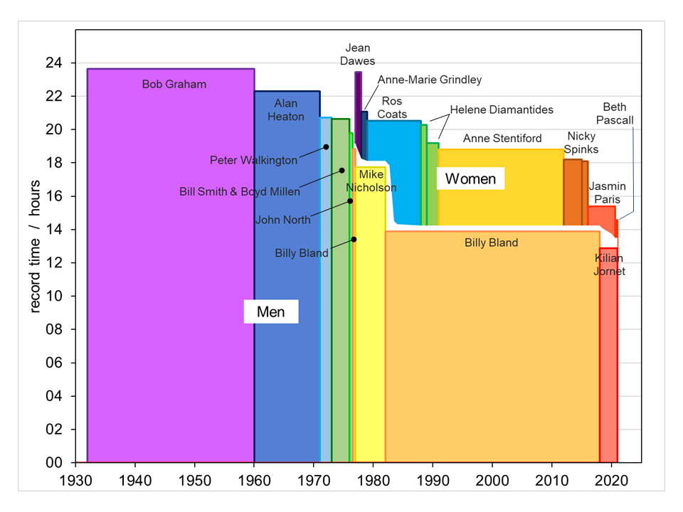 Graph showing progression of men's and women's record times for the Bob Graham Round, updated to Beth Pascall's 2020 record